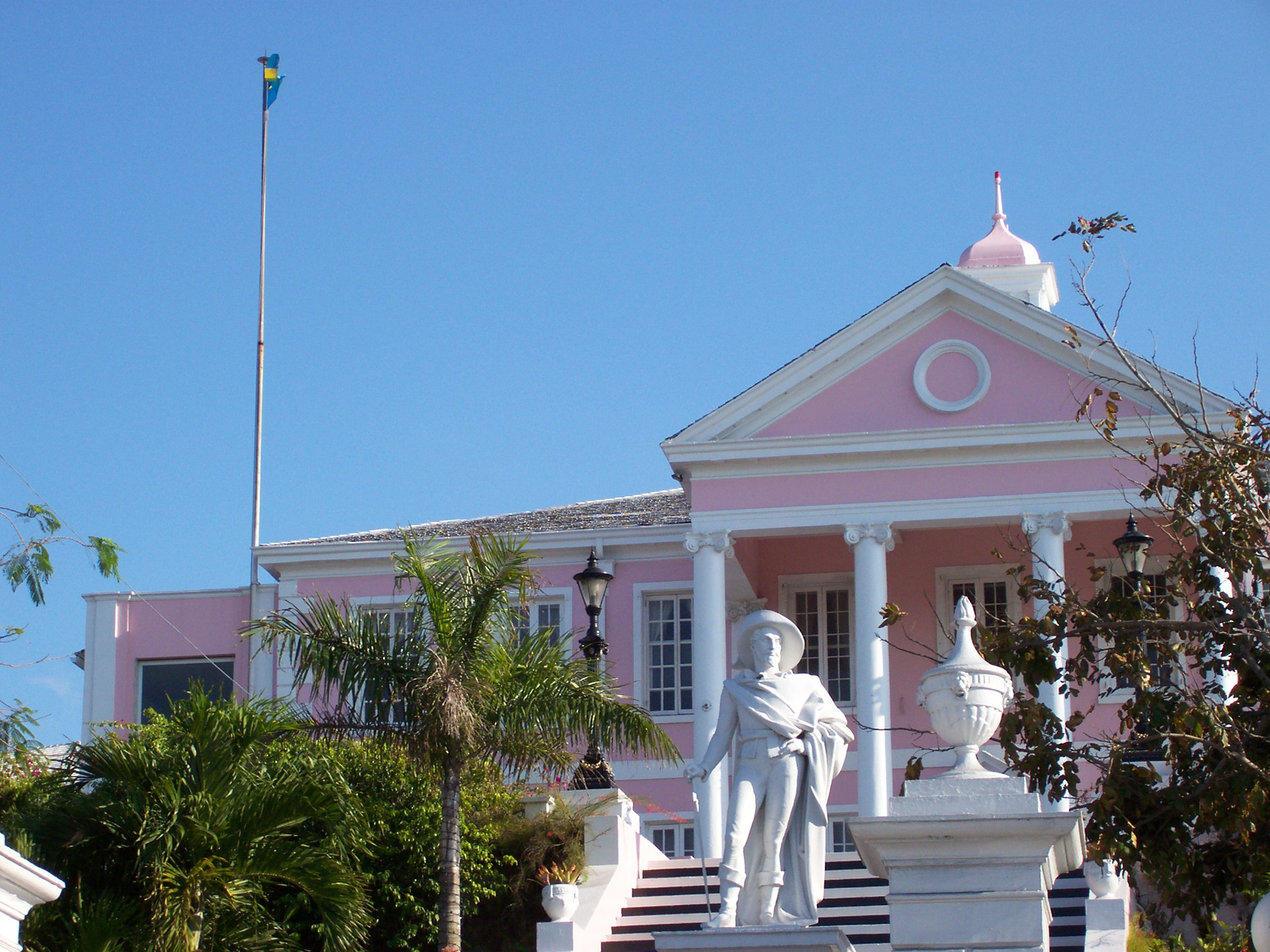 A view of Government House in Nassau. (I took this photograph)